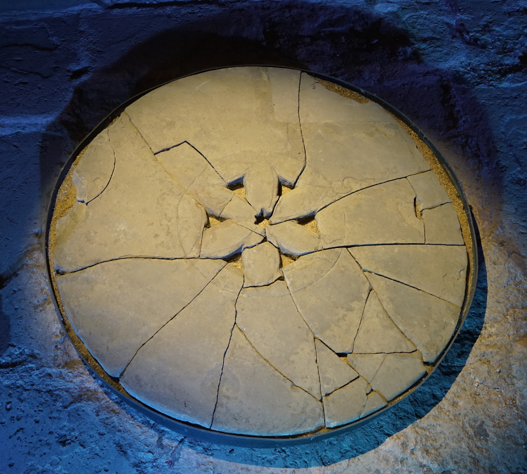 Roman Fortress Baths, Caerleon, Wales, United Kingdom. Drain cover.